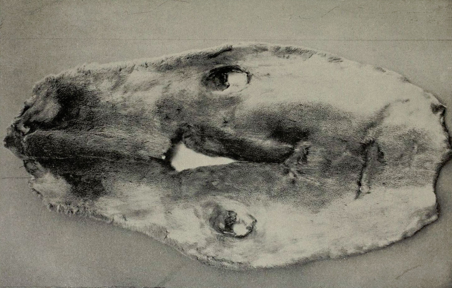 A Branded Seal Skin. This skin was taken from a female seal killed in the Harbor at Akon, Aleutian Island, in November 1896, and turned over to the commission by Mr. A. Gray, of Unalaska. In the process of tanning a portion of the skin burned by the iron has fallen out, showing the effectiveness of branding as a means of depreciating the value of pelagic skins. o « .! ts — a-' Oj +-■ CD O 9 c